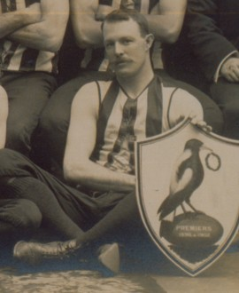 Photograph of George Lockwood in 1902.